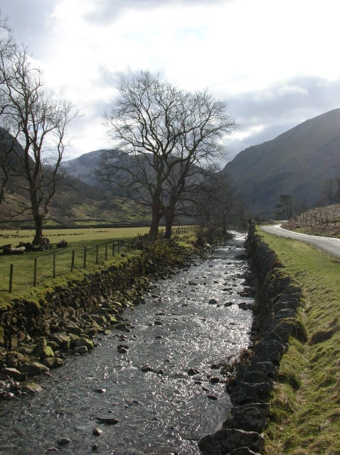 River Derwent Between the villages of Seathwaite and Seatoller.